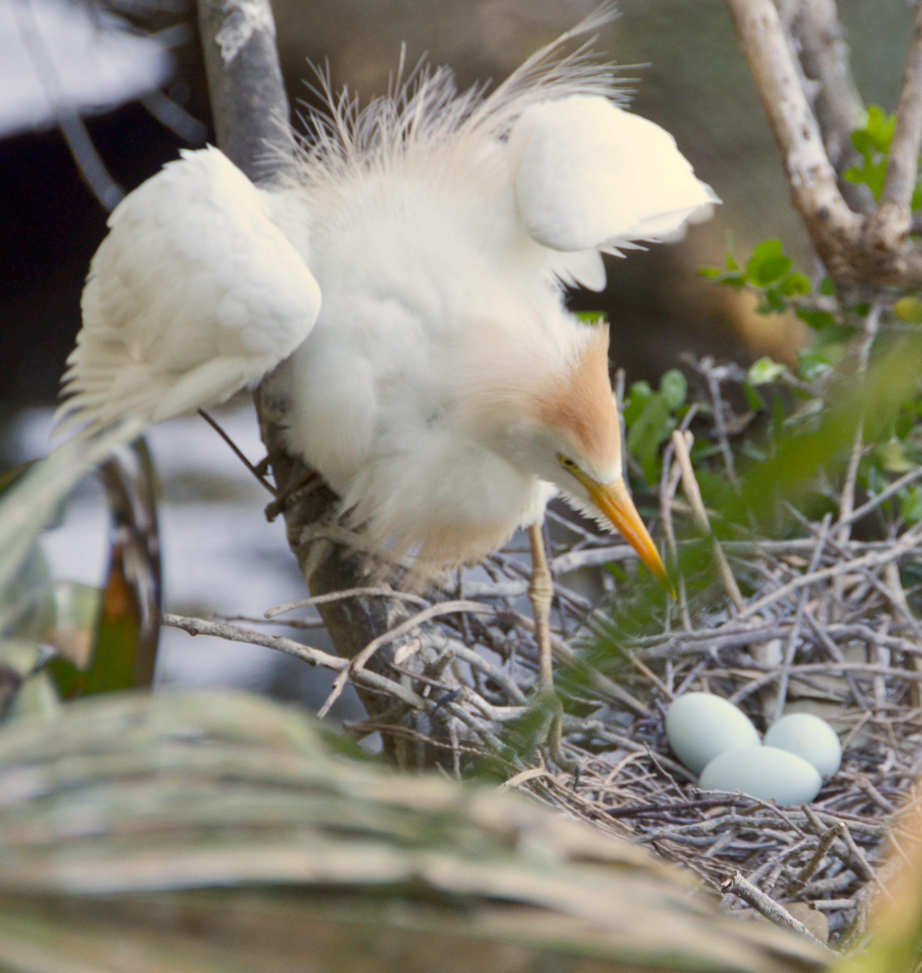 Cattle Egret with eggs, Florida, by Bonnie Gruenberg